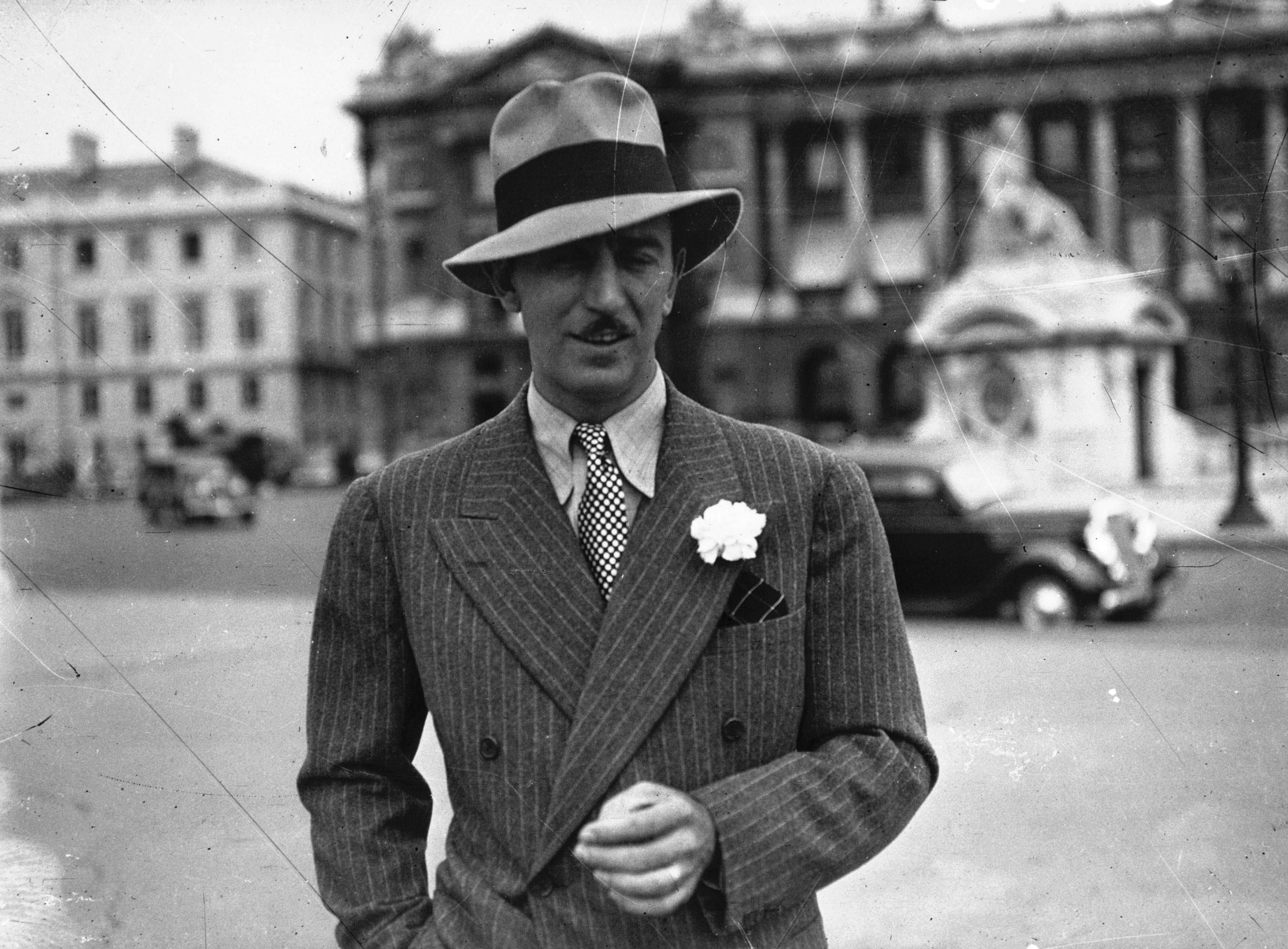 Walt Disney in 1935 on Place de la Concorde in front of Hôtel de Crillon